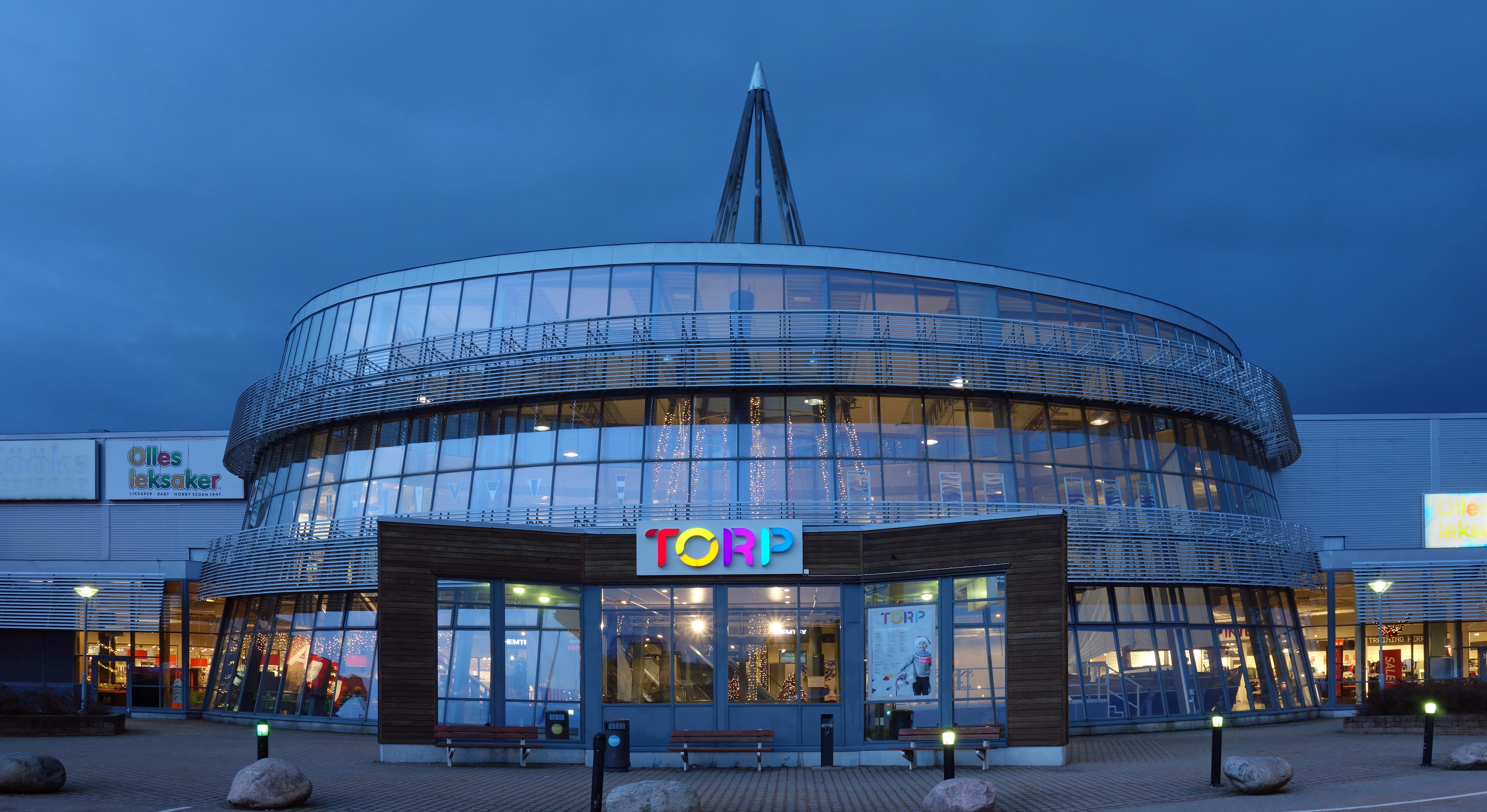 The west part of Torp shopping mall outside Uddevalla, Sweden.